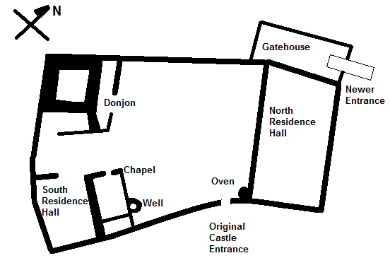 Plan of Grünenberg Castle in Melchnau, Canton of Bern, Switzerland. Based on the map from Burgruine Grünenberg